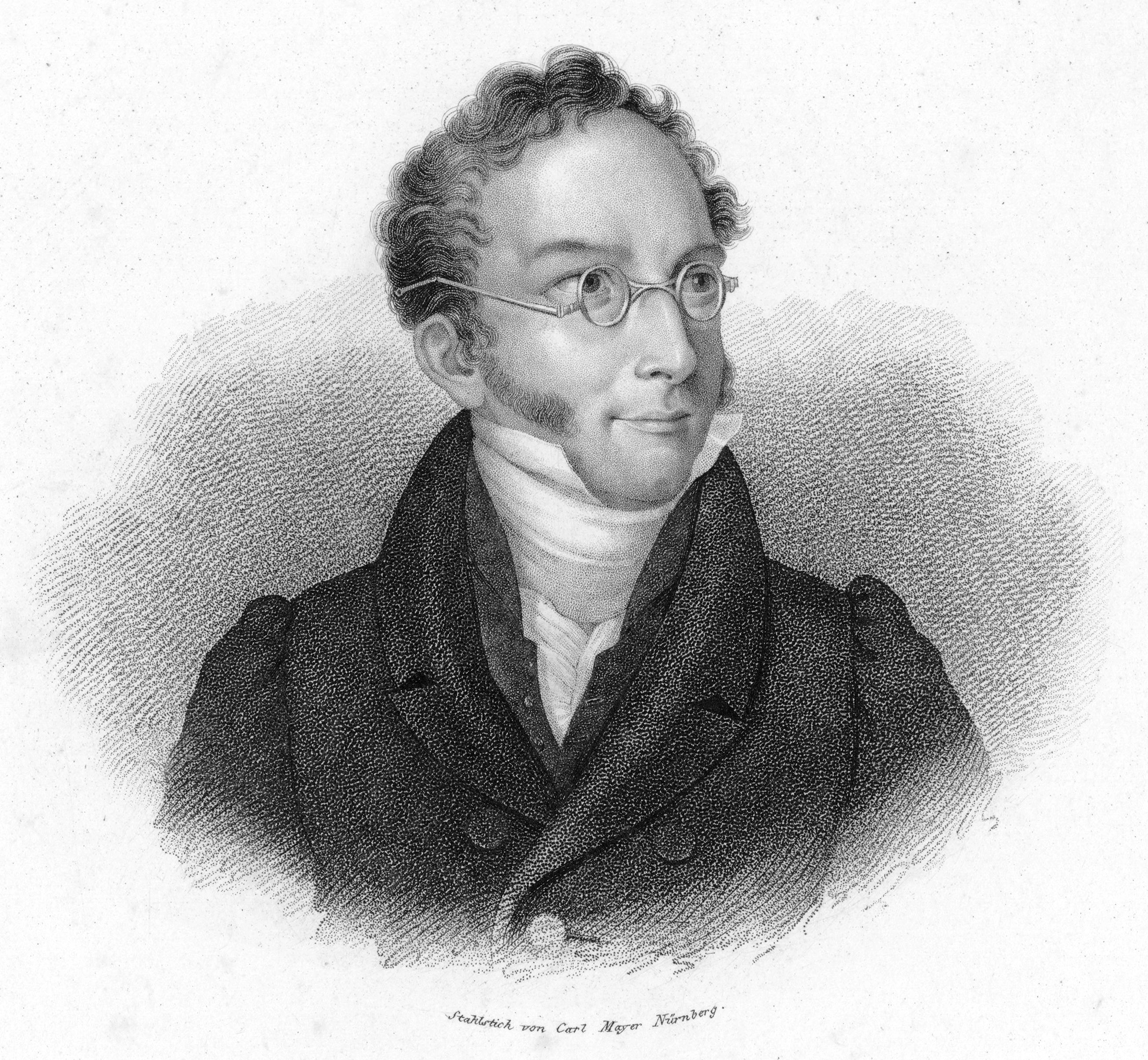 The german composer Albert Methfessel (1785-1869)